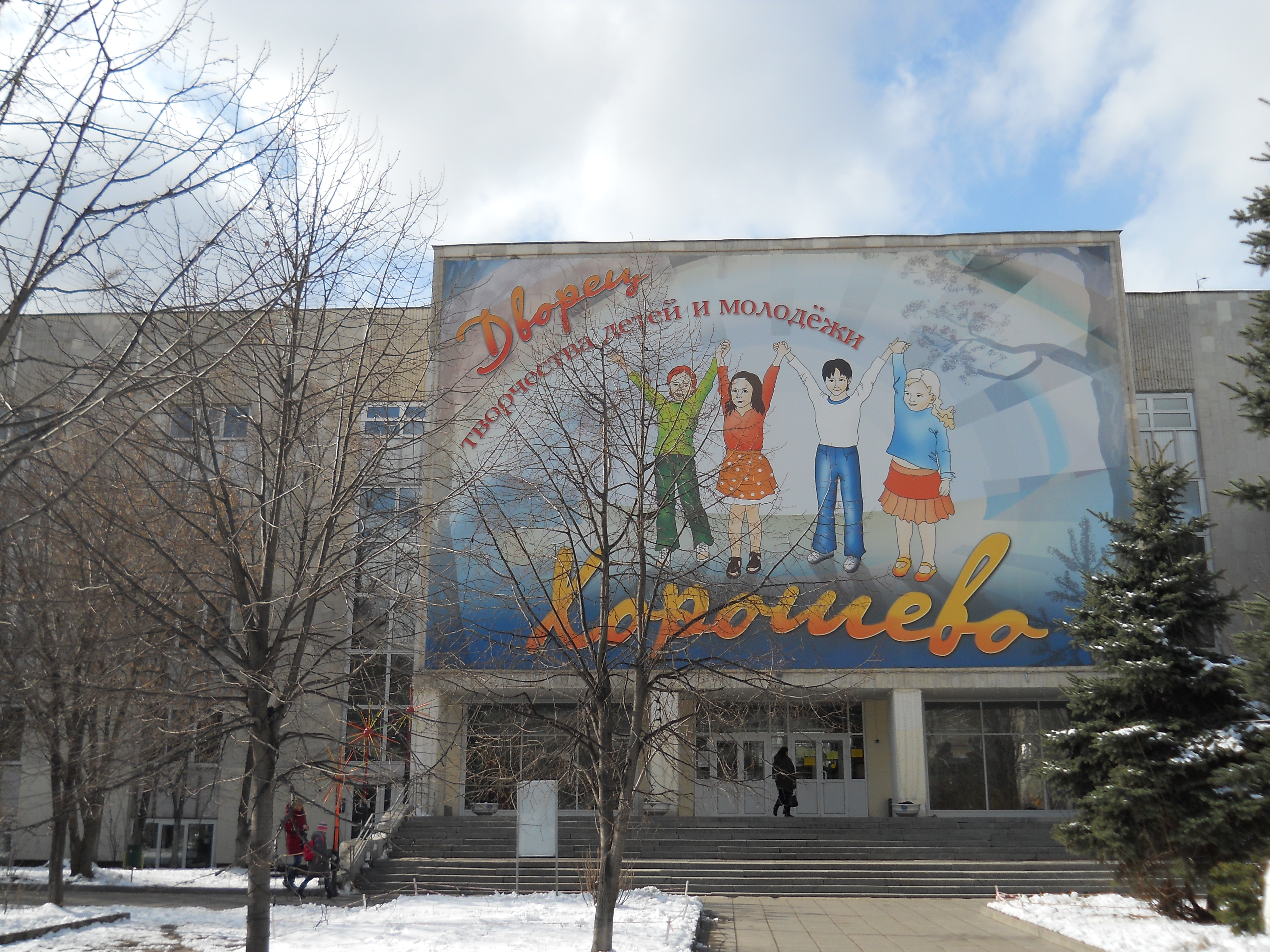 Marshal Tukhachevsky Street 20 k 1, Moscow, Russia.